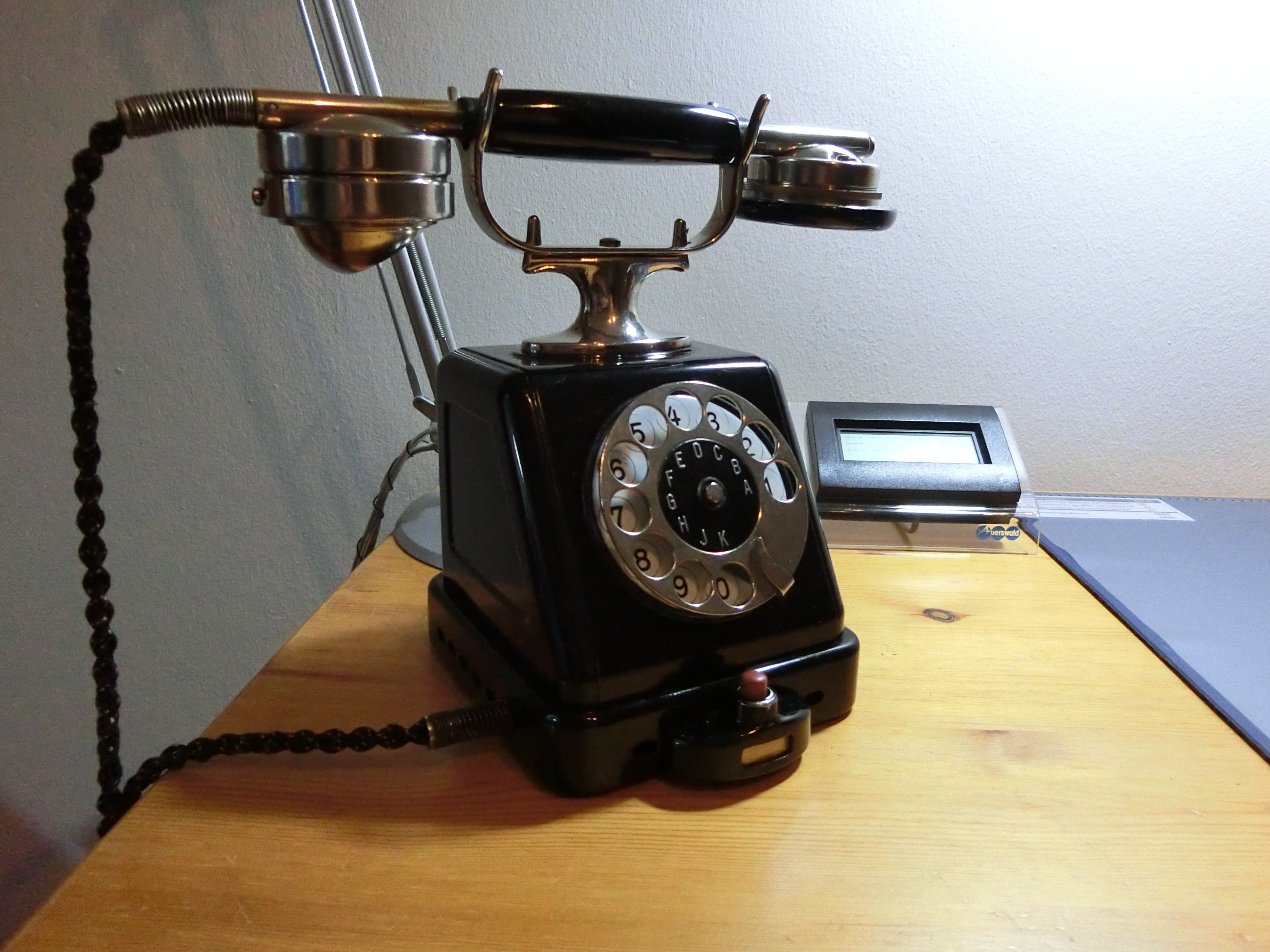 German telephone, Model ZB/SA 24, built 1926 by Siemens&Halske. Still in use.